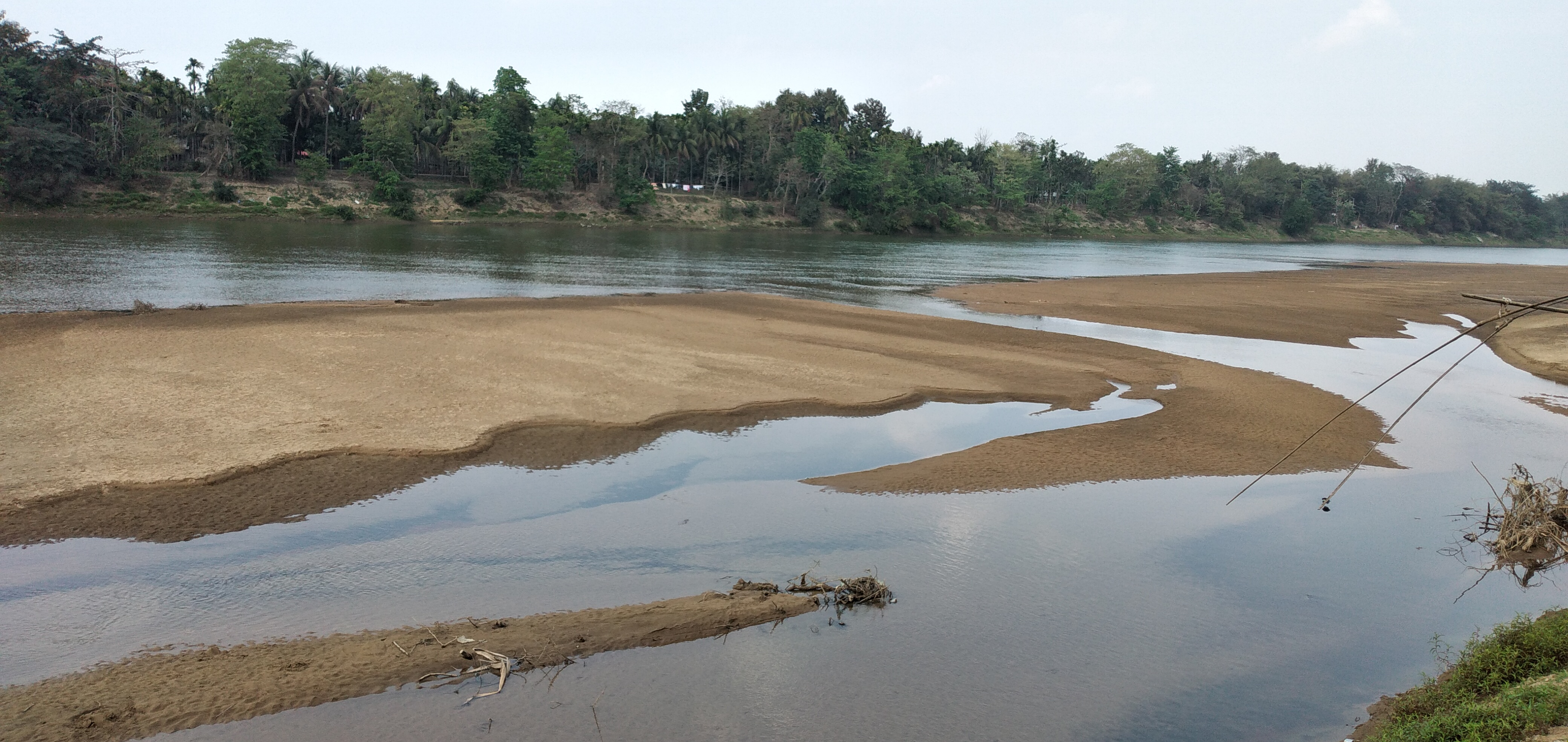 Kopili River is an interstate river in Northeast India that flows through the states of Meghalaya and Assam and is the largest south bank tributary of the Brahmaputra in Assam. অসমীয়া: কপিলী নদী